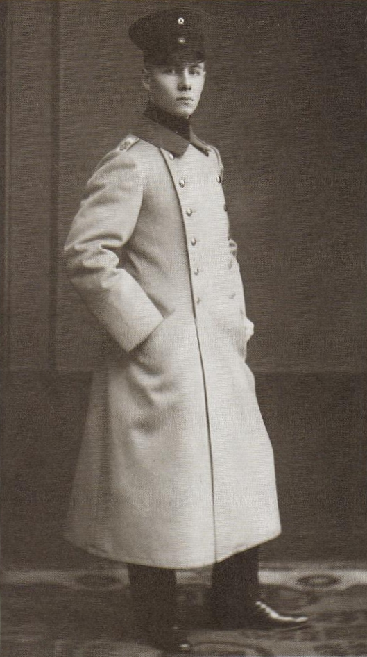 Young Erwin Rommel